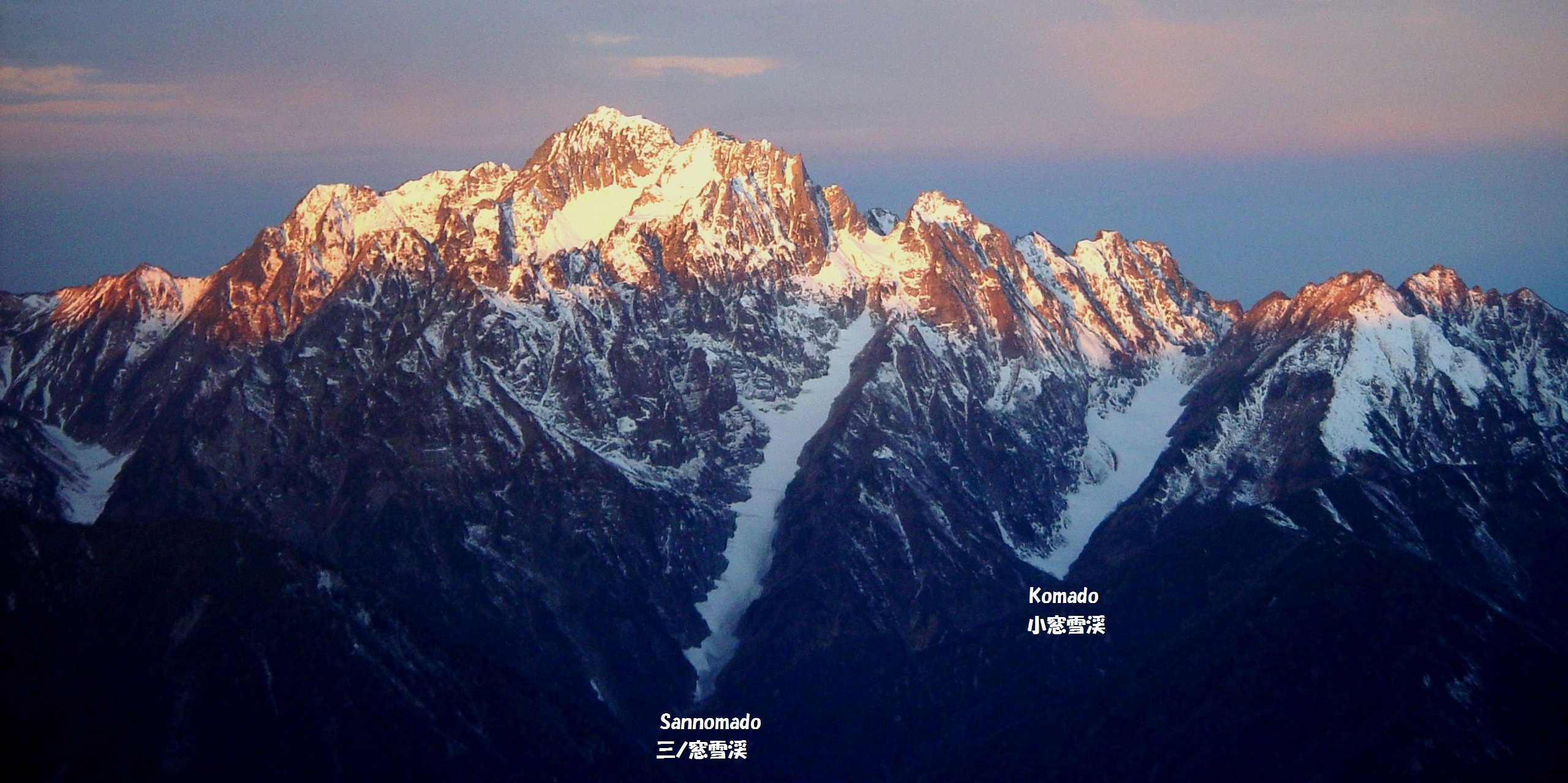 Mount Tsurugi, Glacier